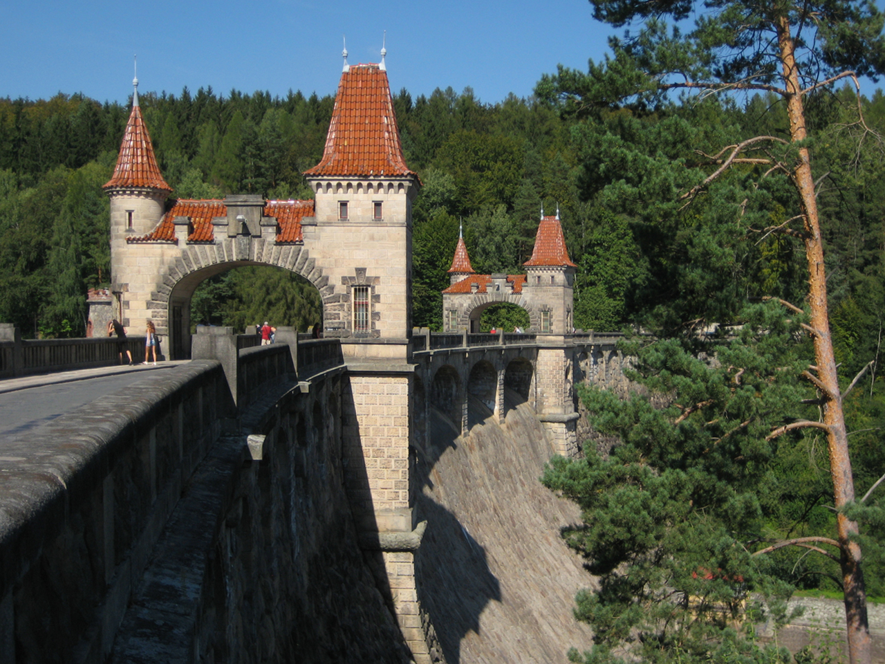 Reservoir dam Les Království, a national historic landmark, district Trutnov, Czech Republic